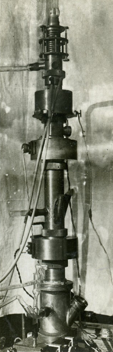 Electron microscope of A. Lebedev (1943)